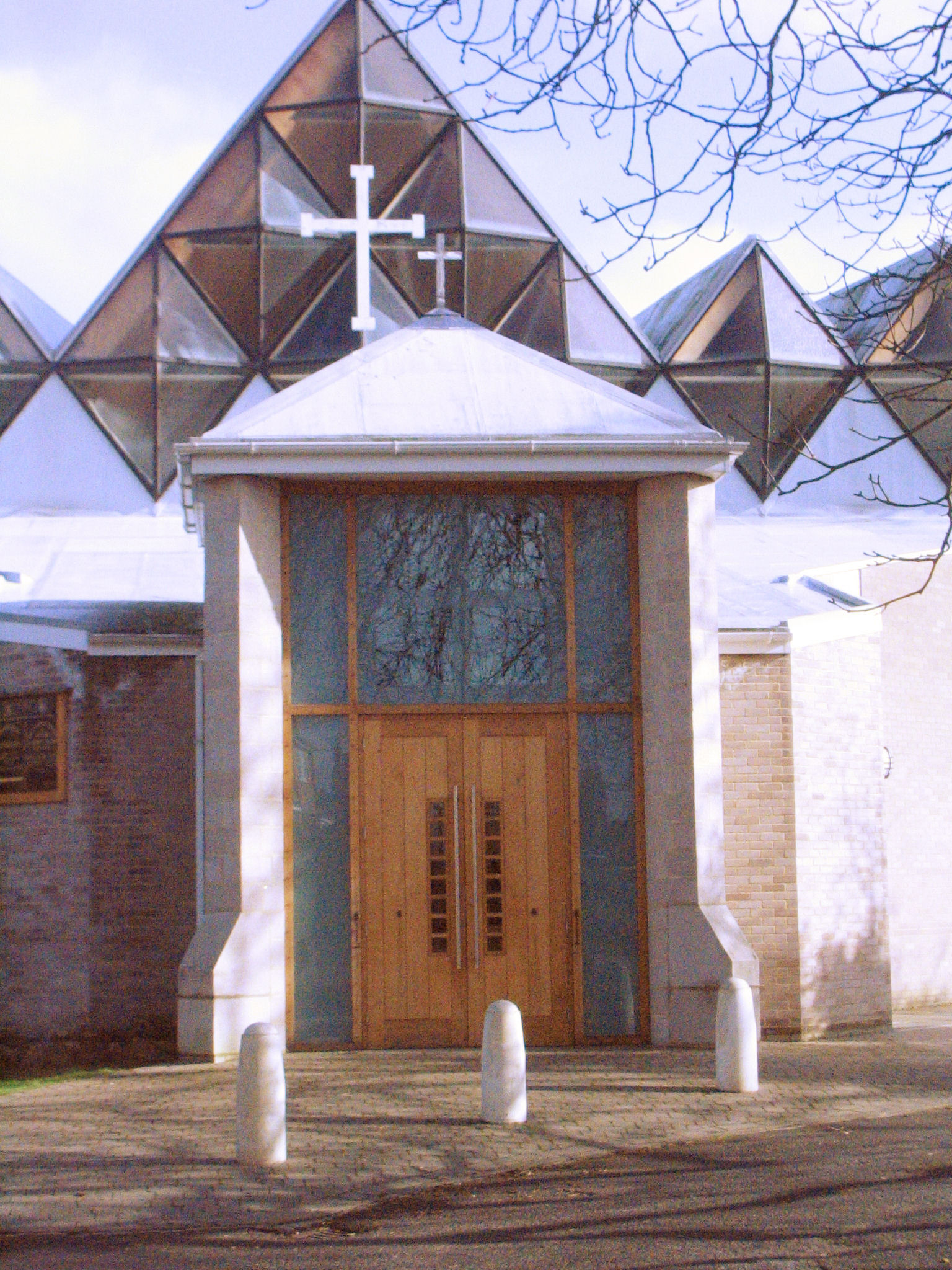 Porch of the Roman Catholic church of Blesséd Dominic Barberi, Cowley Road, Littlemore, Oxfordshire